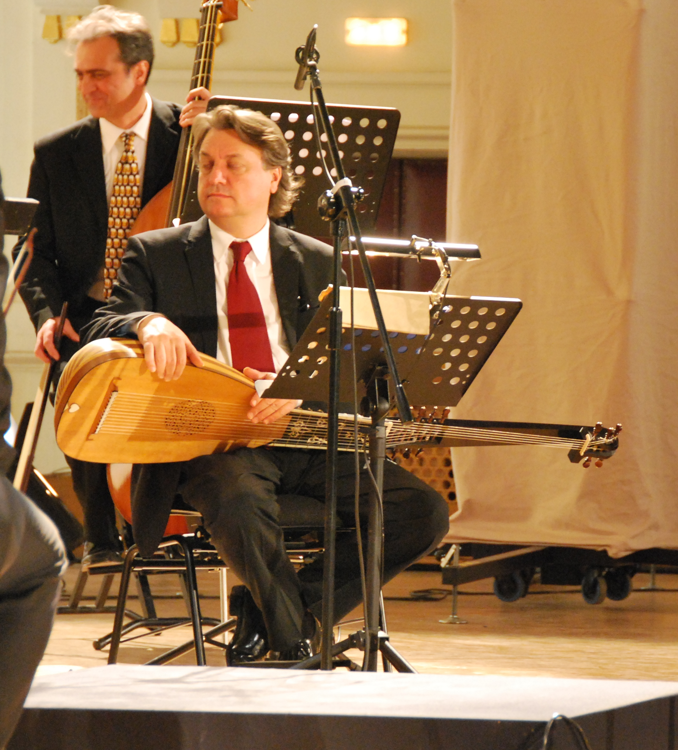 Luca Pianca, Misteria Paschalia Festival, Kraków Philharmonic, 04.04.2010.